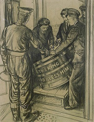 WRNS serving rum to a sailor from a tub inscribed 'THE KING GOD BLESS HIM'.